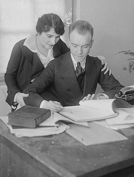 Earl Carroll and wife in 1916